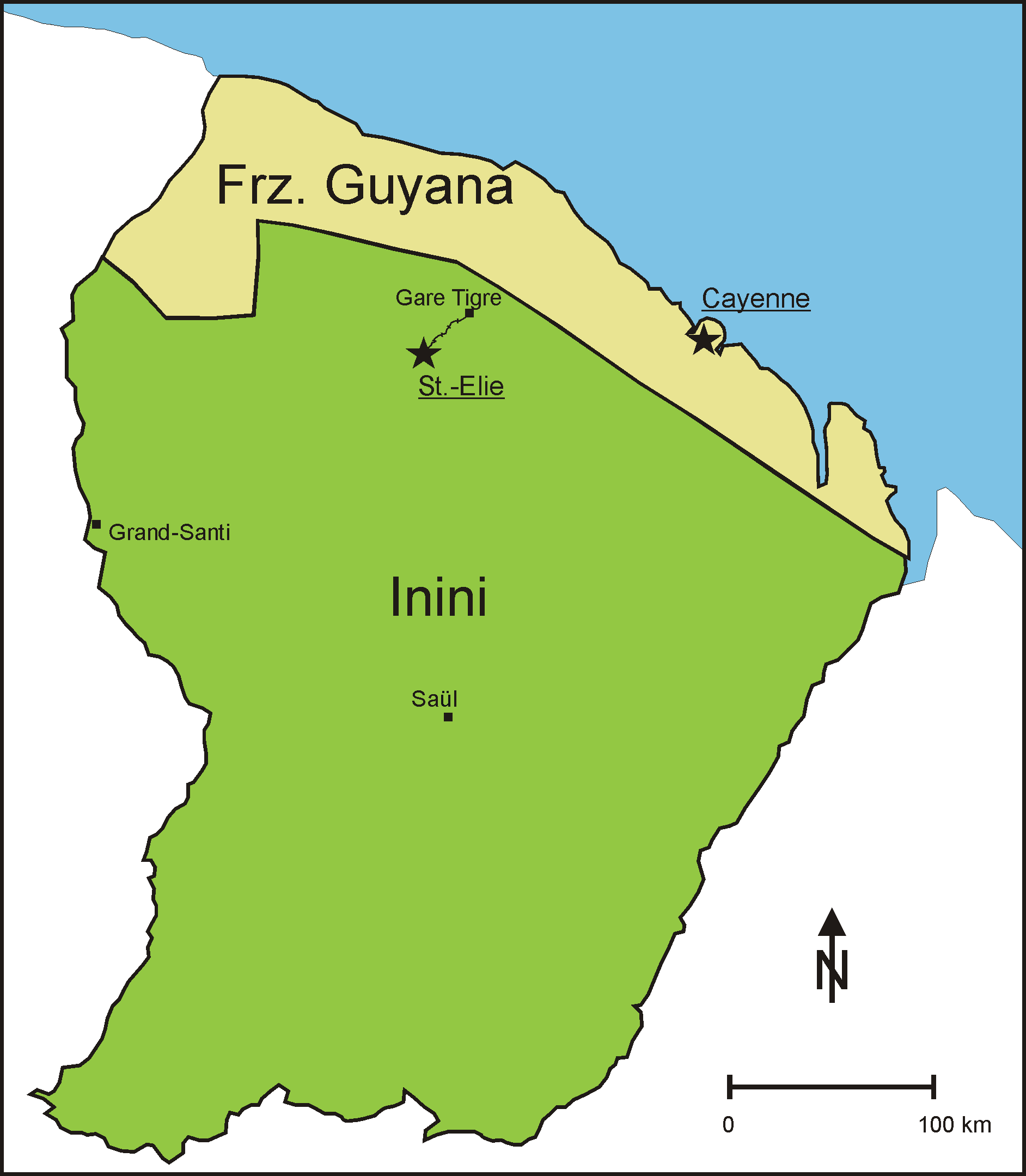 Division of French Guiana from 1930 to 1946 into a coastal strip, further called French Guiana, and the interior, administered as Territoire de l' Inini (Inini Territory)